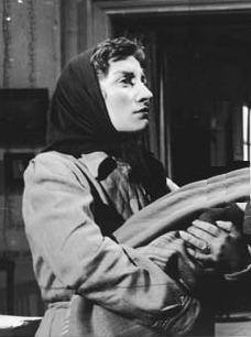 Tencha Bauzá-actriz argentina